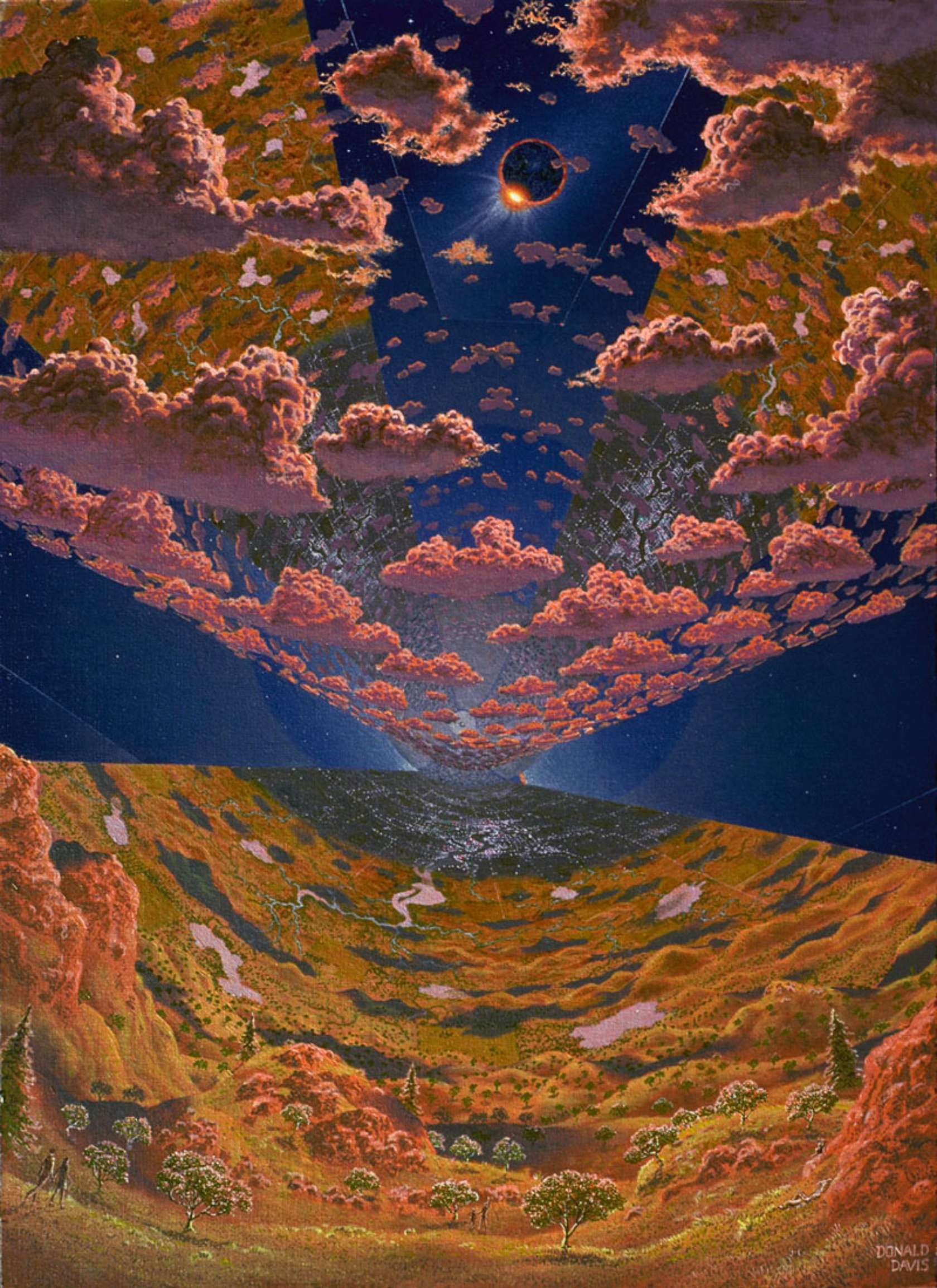 Artist's impression of the interior of an O'Neill cylinder space habitat design. Artist's description: "One of my earliest Space Colony paintings was based on the giant 'Model 3' cylindrical habitats envisioned by Gerard O'Neill. I imagined the clouds forming at an 'altitude' around the rotation axis. At this time the scene is bathed in the ruddy light of all the sunrises and sunsets on Earth at that moment as the colony briefly enters the Earths shadow, out at the L5 Lagrangian point where stable locations are easily maintained. Oil on canvas panel disposition unknown."